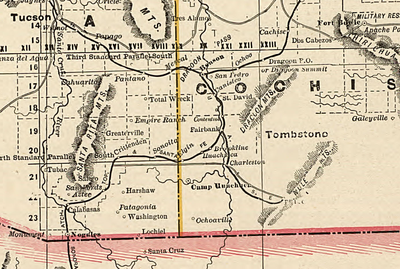 Tucson to Tombstone, Arizona area, portion of a railroad and county map of Arizona. Shows relief by hachures, drainage, cities and towns, townships and counties, roads, and unfinished railroads. Digital ID: G4330 1887 .C7 RR 182, Scale ca. 1:1,600,000.